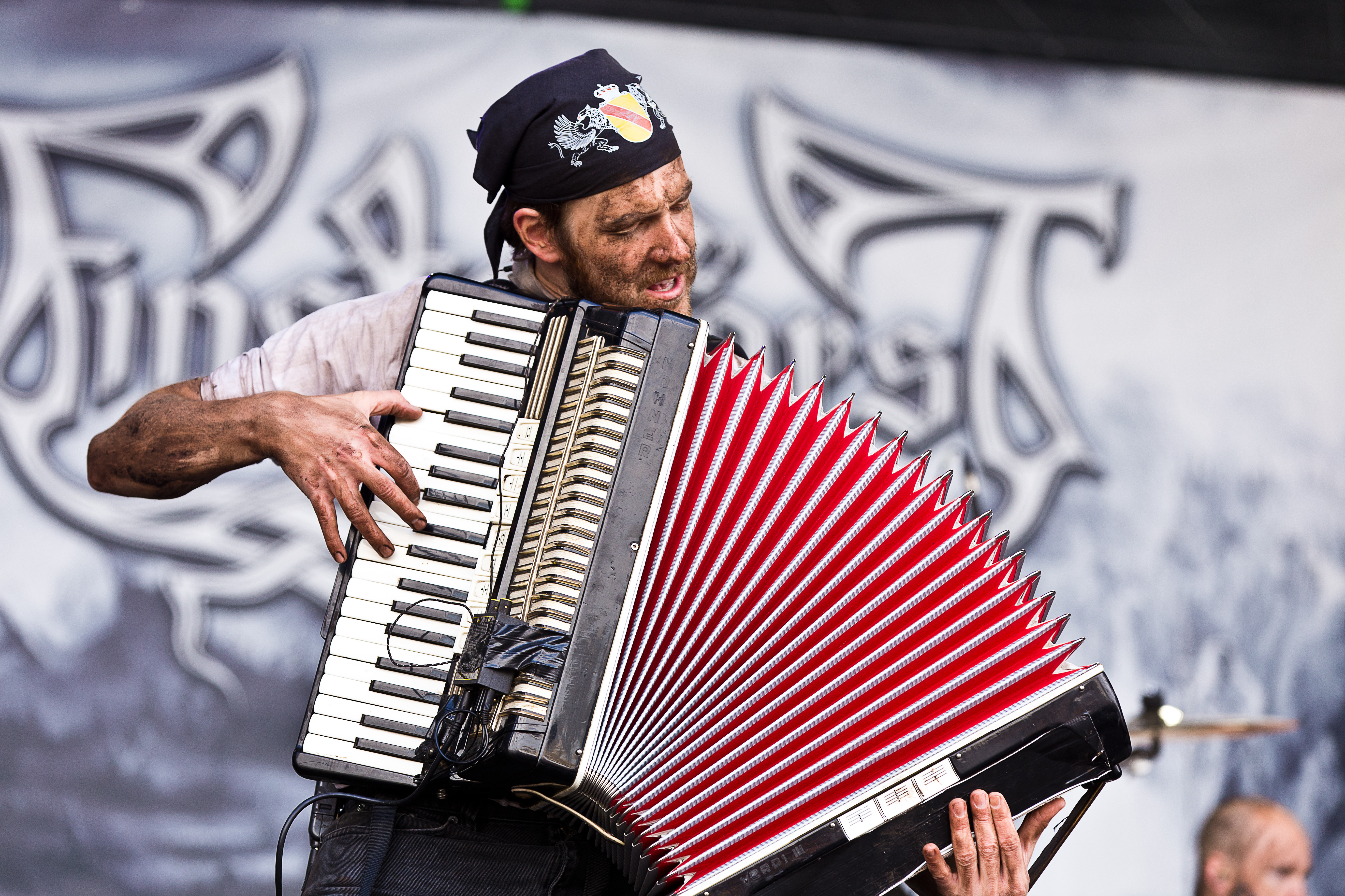 The German pagan metal band Finsterforst at the Rockharz Open Air 2015 in Ballenstedt/Germany.